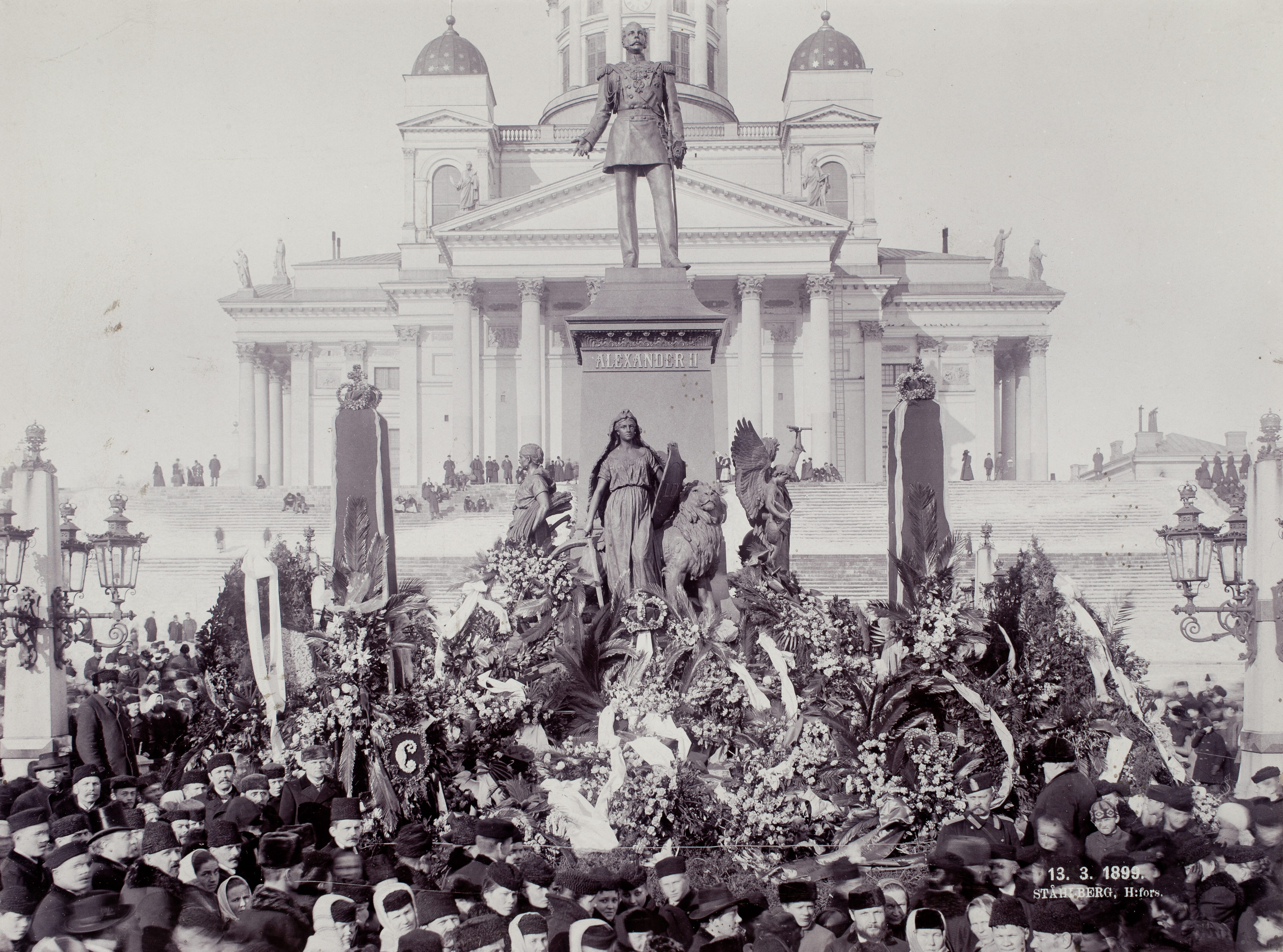 Blomhavet vid Alexandersstatyn 13.3.1899 (22,5x16,8 cm) på kartong Foto: Atelier K. E. Ståhlberg Helsingfors, Finland Svenska litteratursällskapet i Finland